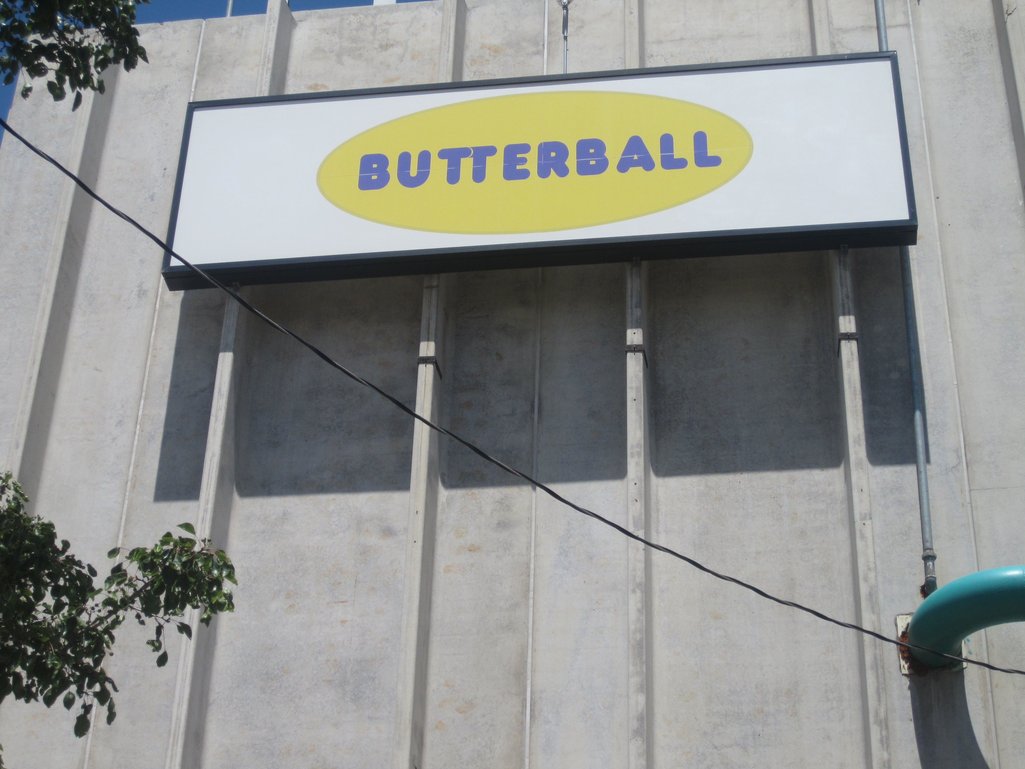 I took photo with Canon camera in Longmont, CO.